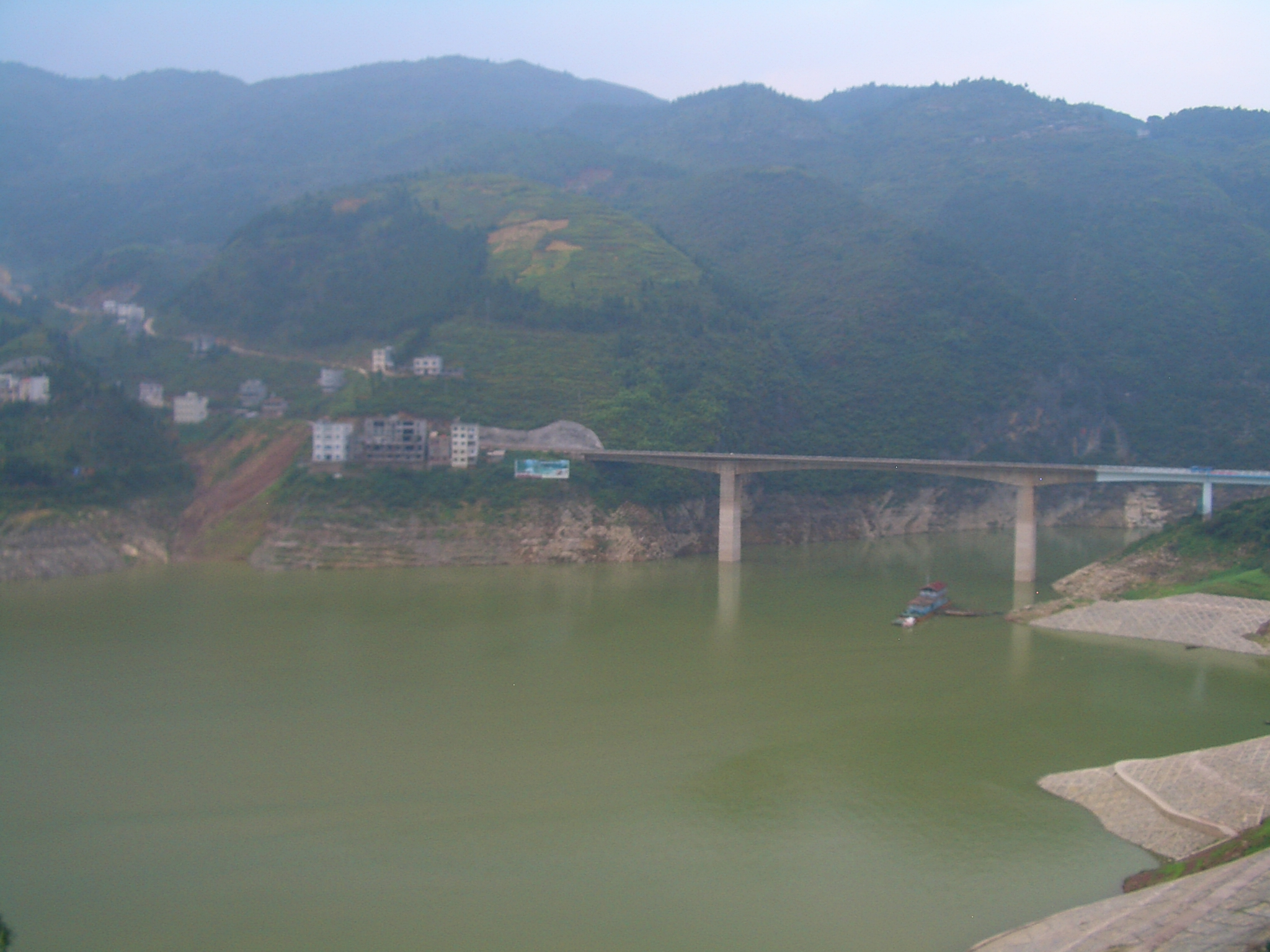 Bridge across the Shennong Xi (Shennong Creek) on Badong's north side, near the "Creek's" fall into the Changjiang